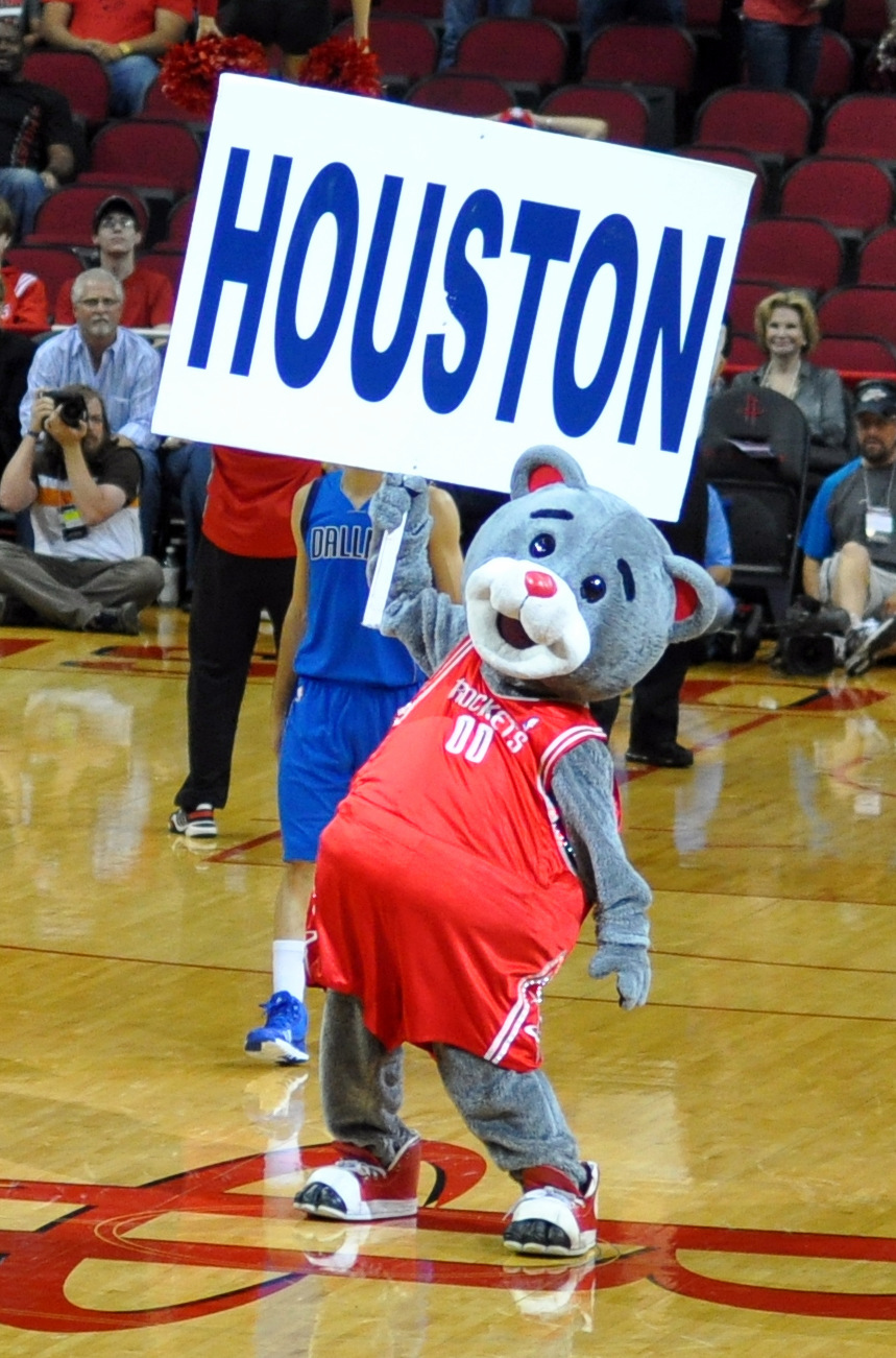 Houston Rockets mascot Clutch the Bear entertains the crowd prior to an NBA basketball game between the Rockets and the Dallas Mavericks, Nov. 1, 2013, at the Toyota Center in Houston, Texas.